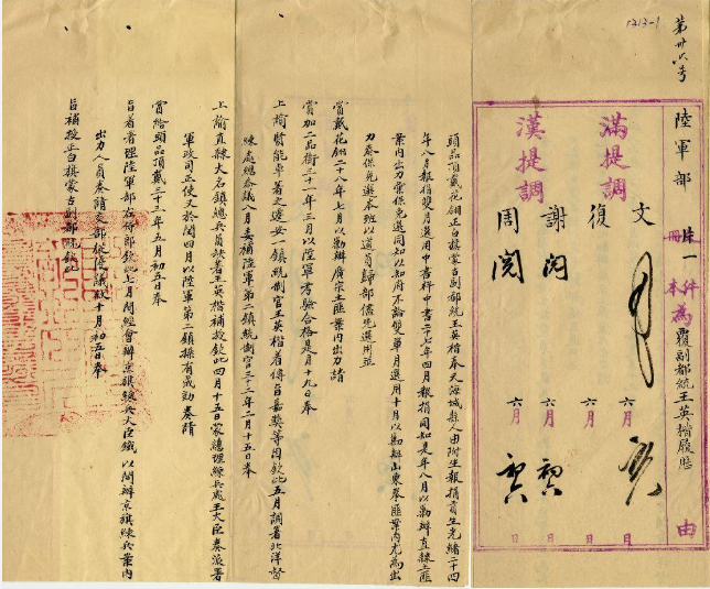 Qing court's appreciation of Wang Yingkai's contribution